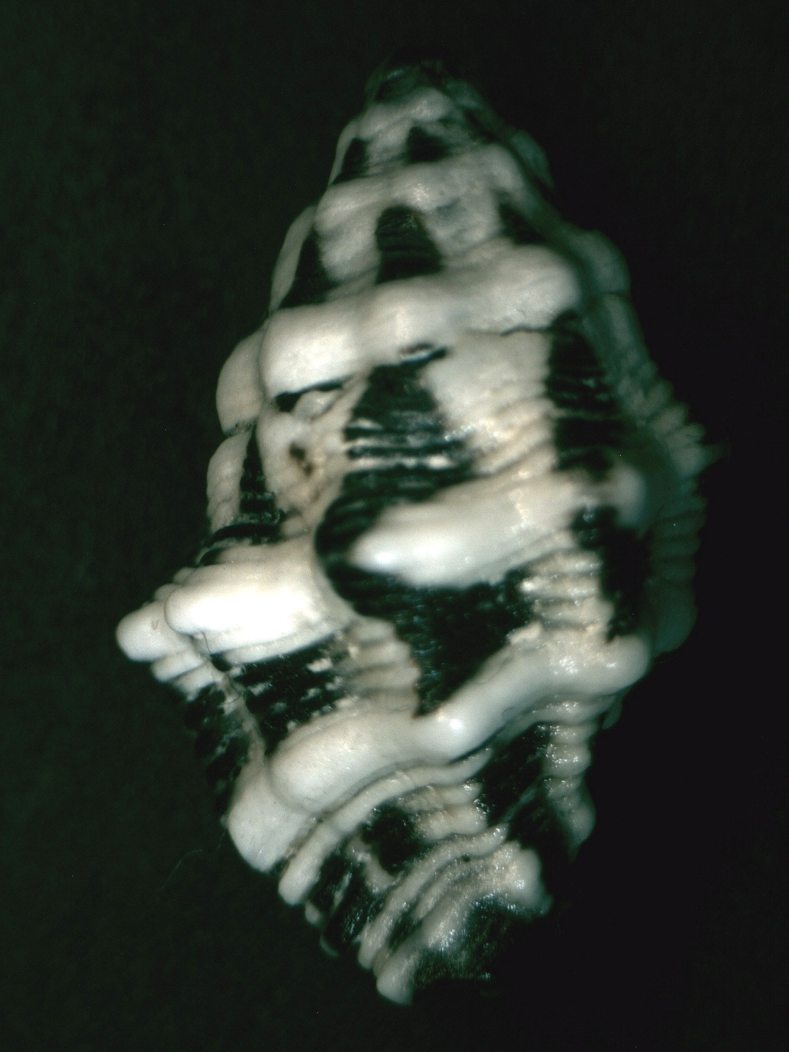 Morula (Habromorula) striata (Pease, 1868) , a murex snail from the family Muricidae; Philippines